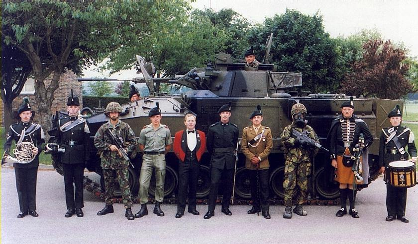 Author:User:Maxburgoyne